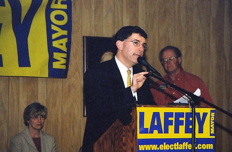 Steve Laffey giving a speech in 2002 during the mayoral race in Cranston, Rhode Island.